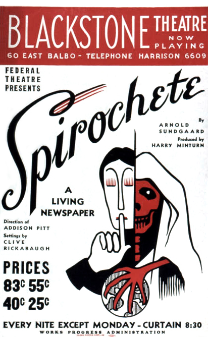 Silkscreen poster for Spirochete, a Living Newspaper play by Arnold Sundgaard produced by the Federal Theatre Project